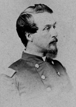 Portrait of Major-General Frank Wheaton, Union American civil war commander. Taken from